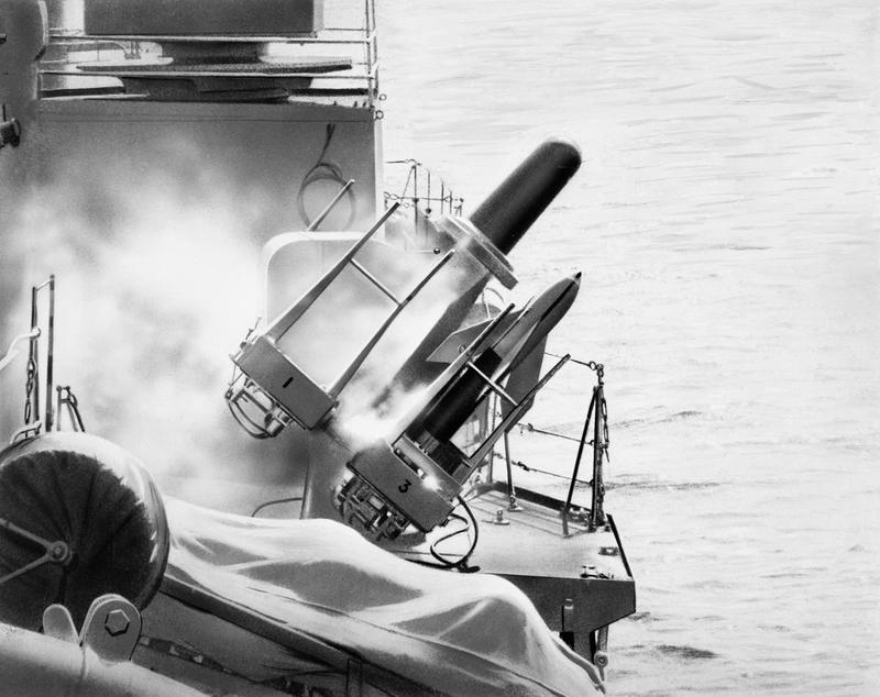 Trial firing of Short Sea Cat anti-aircraft Missile System, HMS Decoy, English Channel, February 1961 (IWM A34404)